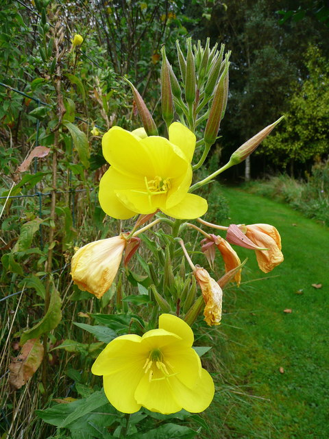 Evening Primrose, Oenothera erythrosepala Growing by the footpath near the Overross Caravan Site. Last night's flowers are beginning to collapse.